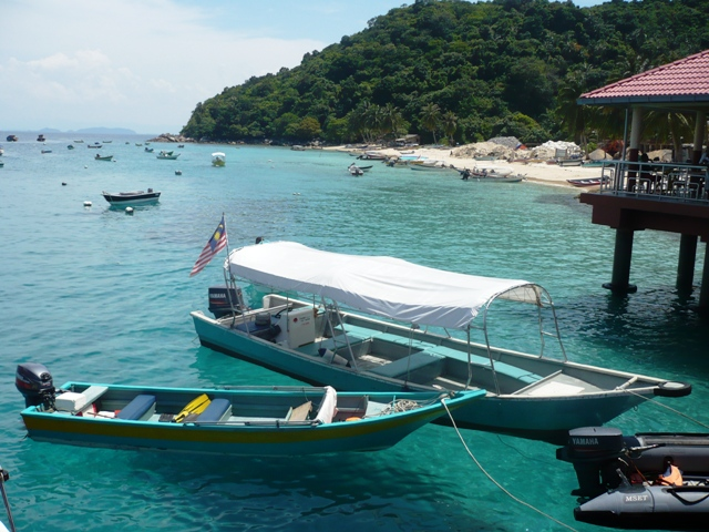 Boats at Perhentian Kecil jetty